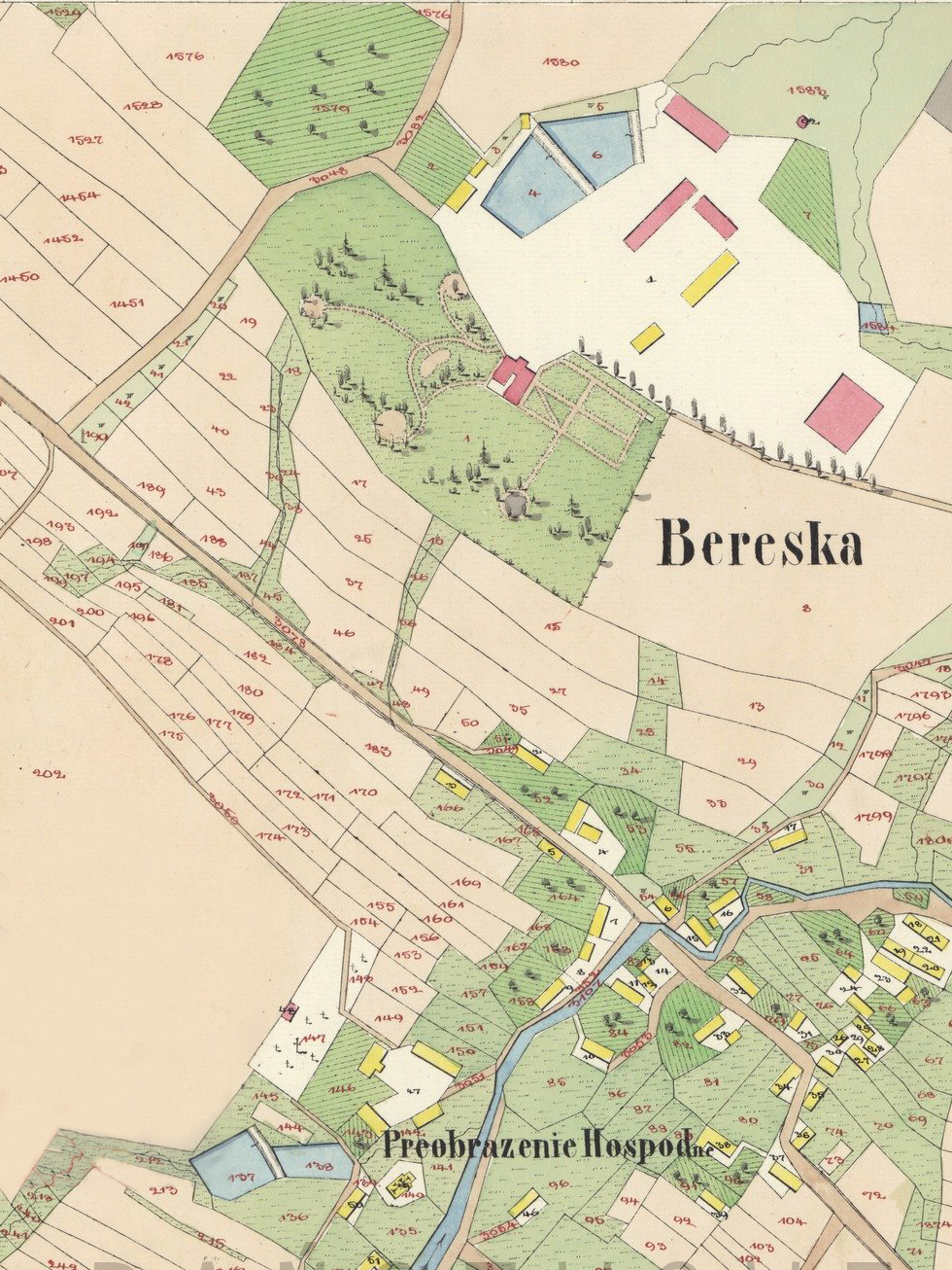 Manor of the Żurowski family in Berezka on a map from 1851 (upper part of the map).